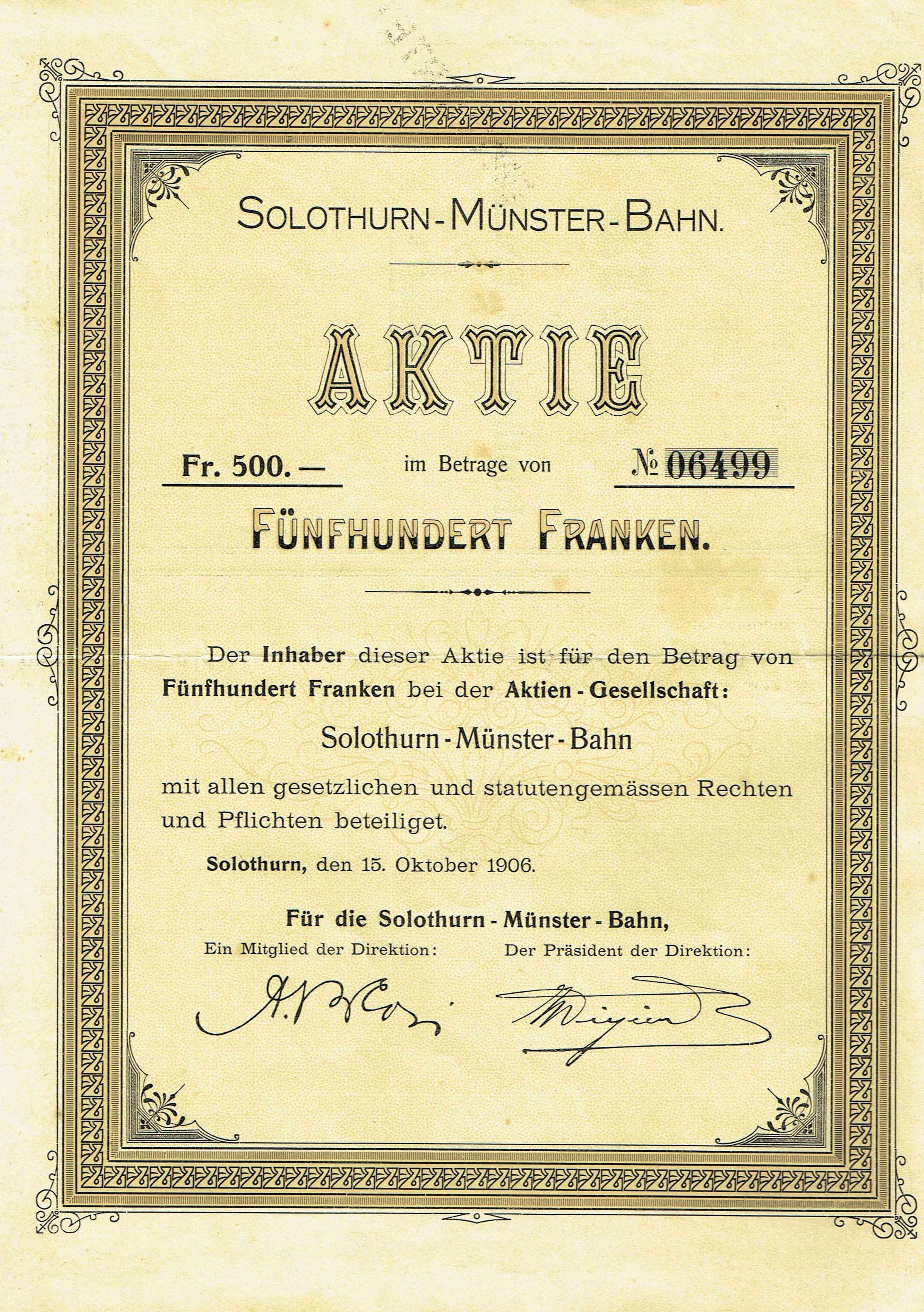 Share of the Solothurn-Münster-Bahn, issued 15. October 1906